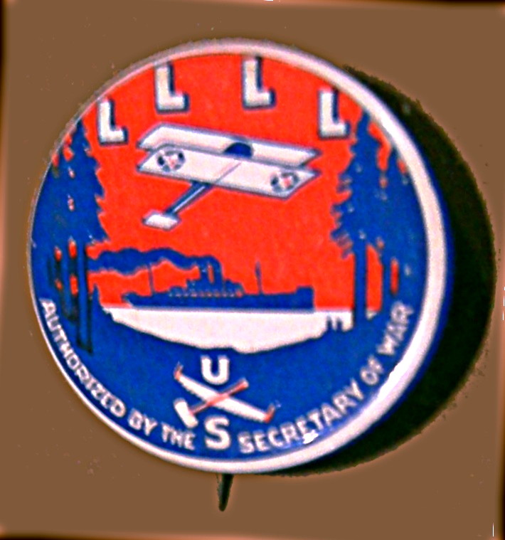 Red, white, and blue button for Loyal Legion of Loggers and Lumbermen (LLLL), Washington State History Museum..The LLLL was set up by the U.S. War Department during World War I as a counter to the anti-war Industrial Workers of the World.Image significantly manipulated with GIMP (perspective correction, etc.) because image had to be taken from an angle such as to minimize reflections.